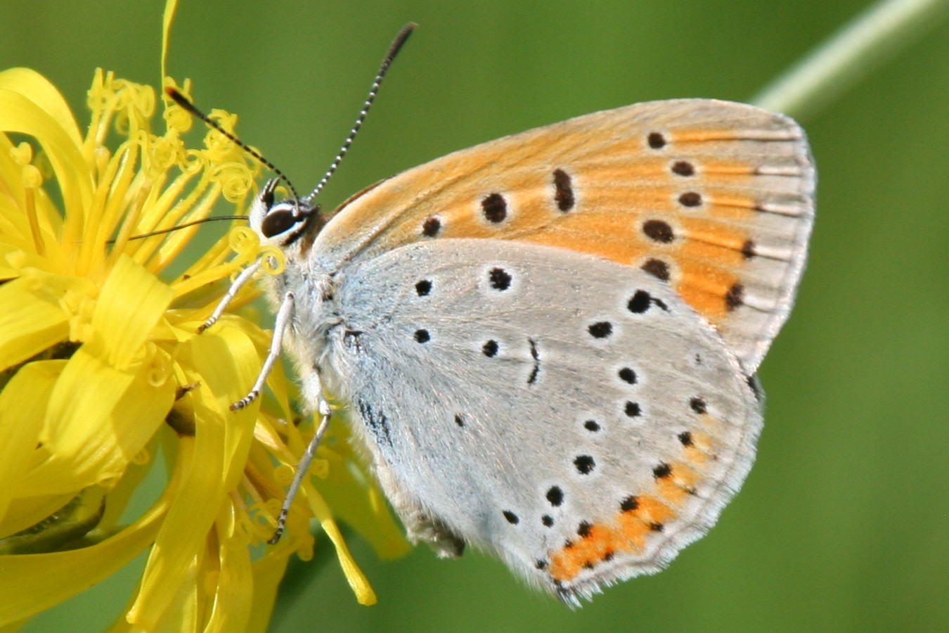 A female of the Large Copper butterfly (Lycaena dispar), photographed in Obersulm-Affaltrach on a meadow near the Sulm river